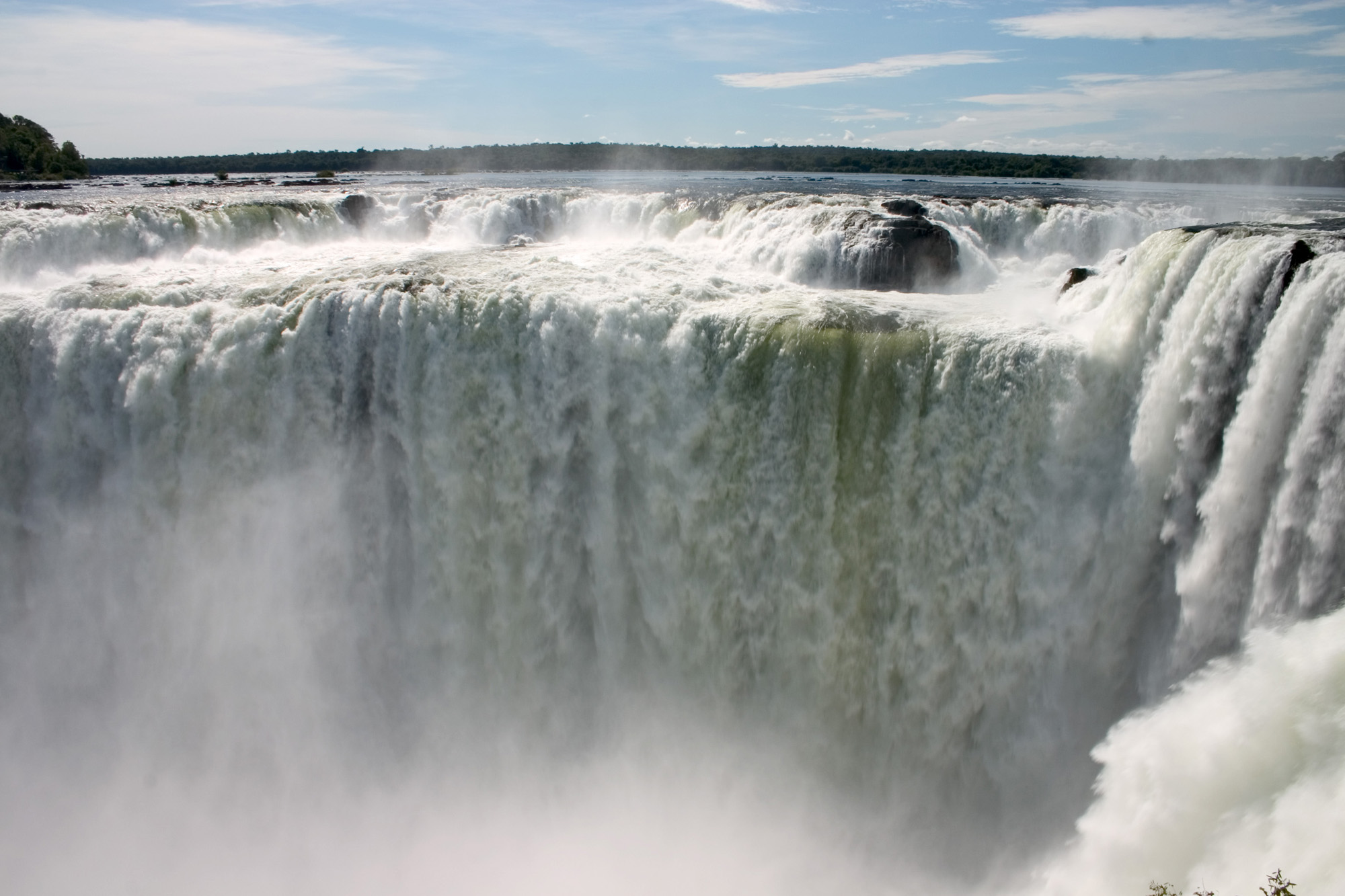 Garganta del Diablo (Devil Throat) Iguazu Falls, Argentina.